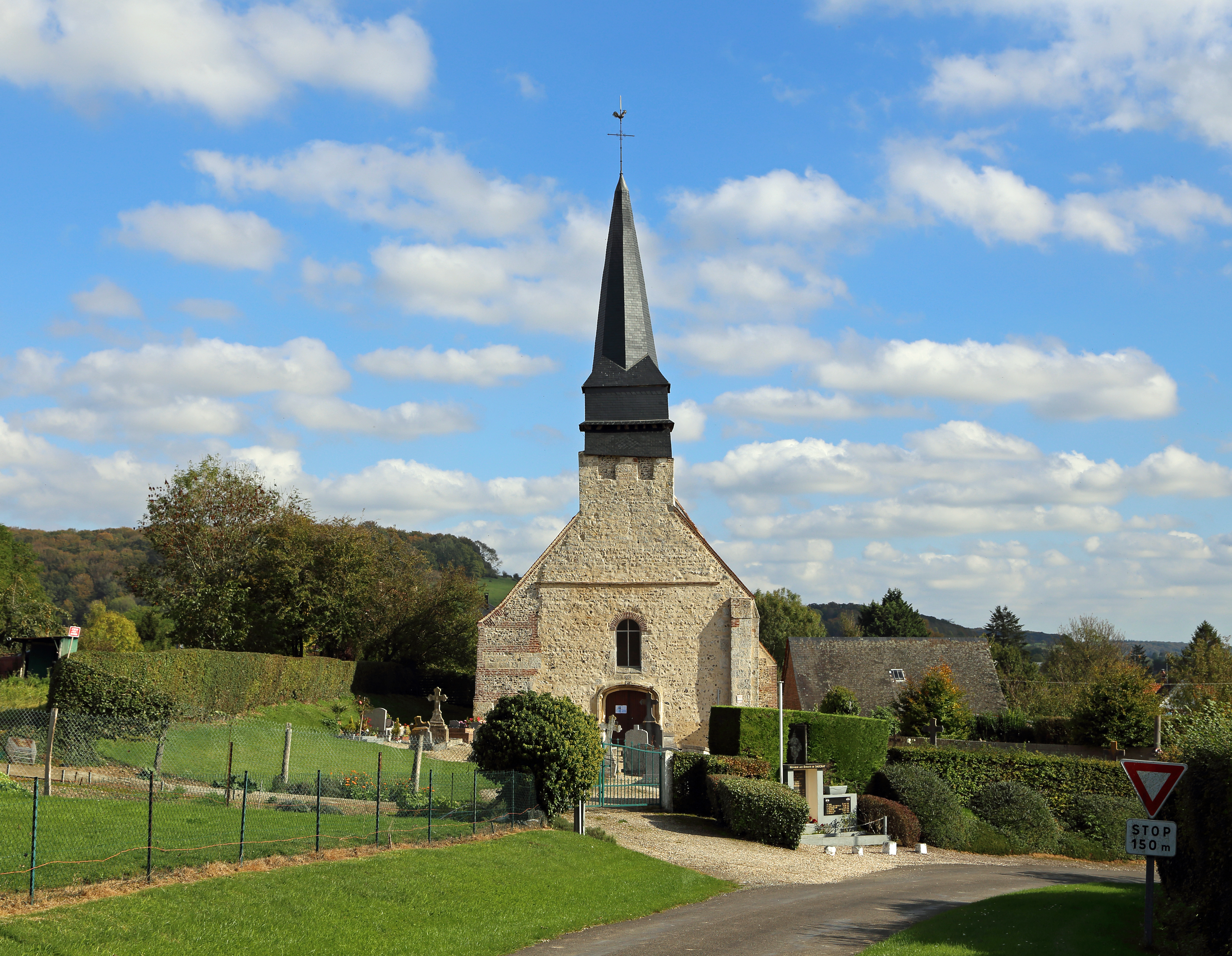 Sauchay-le-Bas (municipality of Sauchay, Seine-Maritime department, France): Saint Martial church